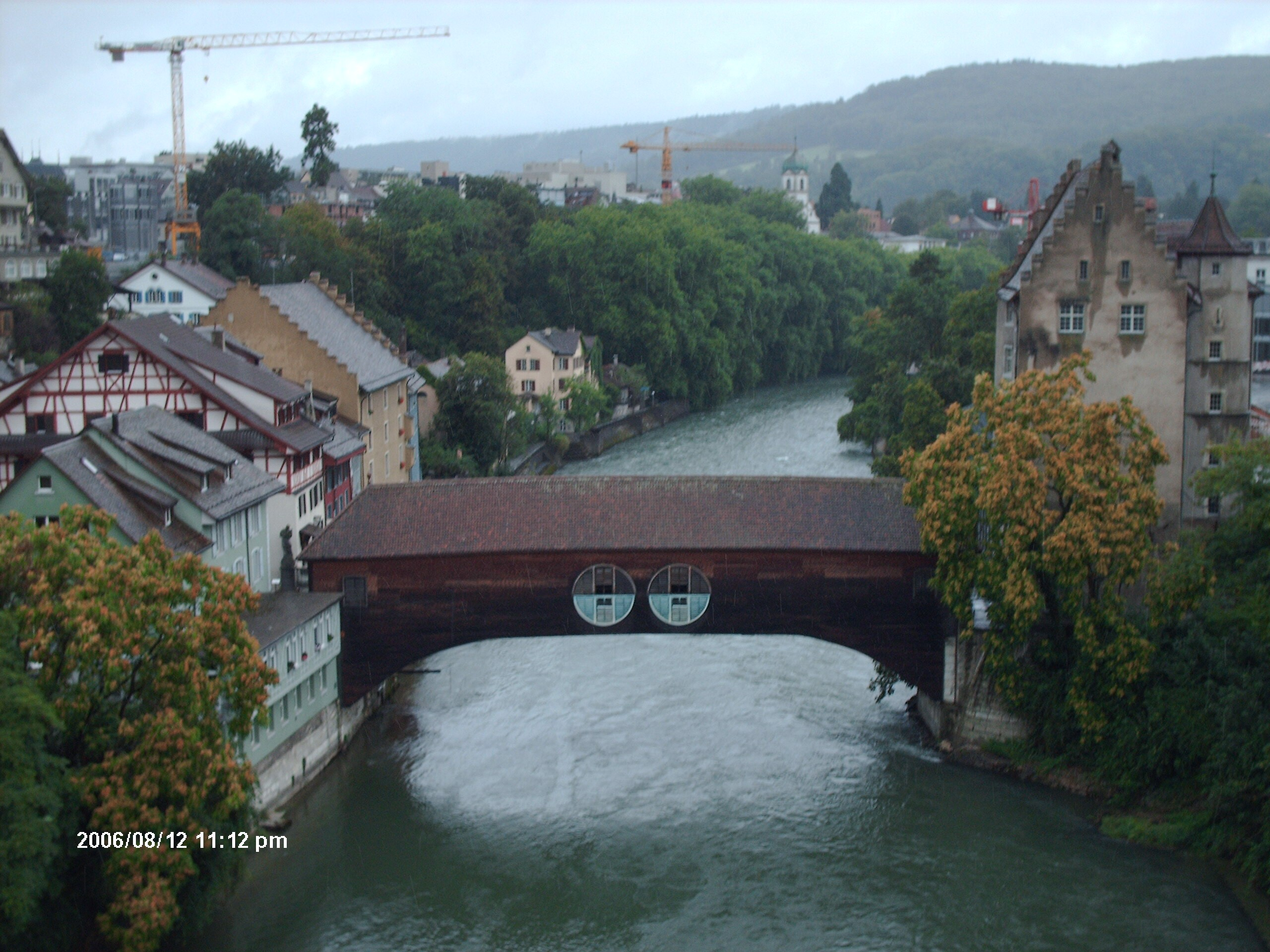 Baden, covered wooden bridge over Limmat river with Landvogteischloss (sheriff's castle) on the right